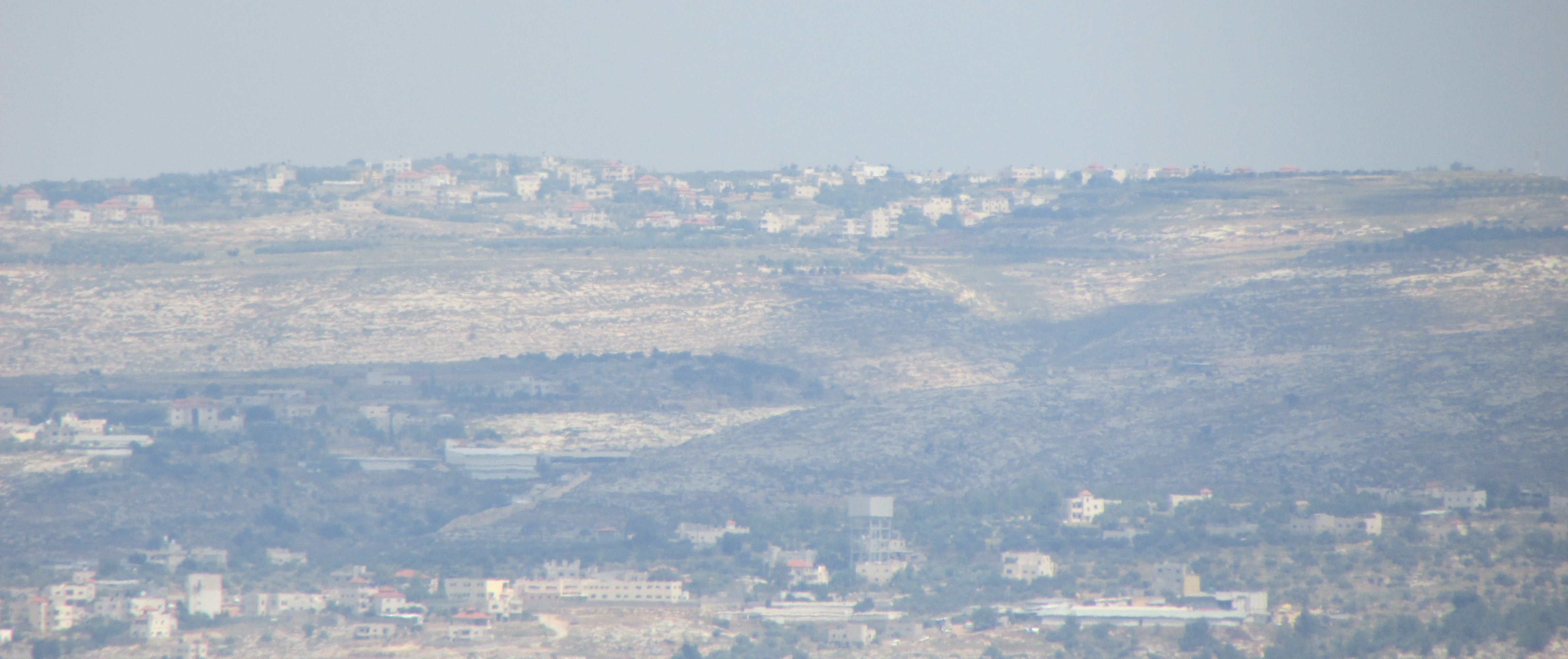 the closer houses are between Bilin and Kafr Nime. The farther houses up on the mountain are Jammala.